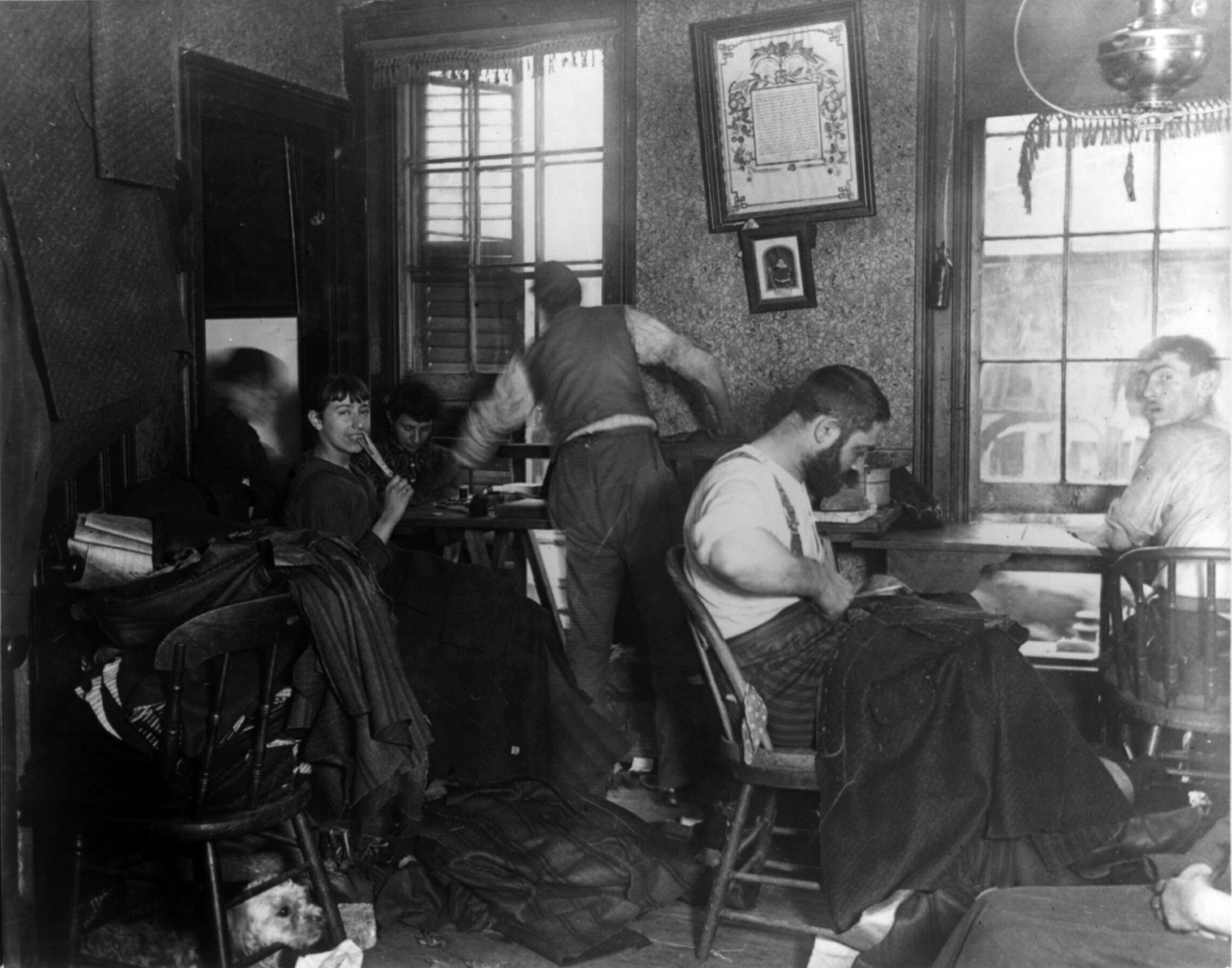 Workers in a sweatshop in Ludlow Street Tenement, New York City.